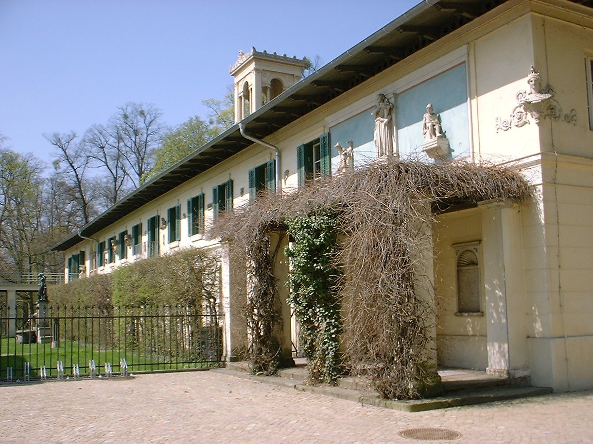 Carriage house of Glienicke Palace in Berlin-Wannsee, Germany